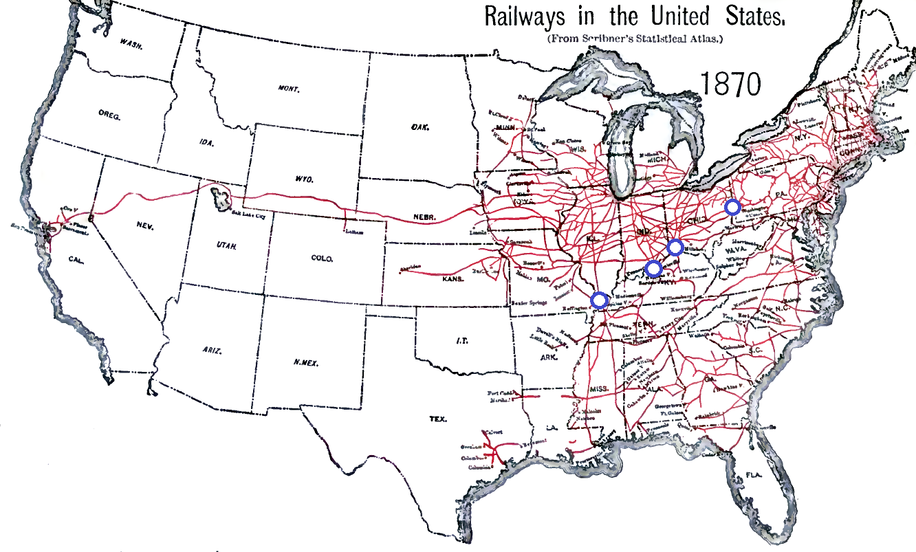 Adaption of "Railways in the United States, 1870" with a marker (from left to right) at Cairo (Illinois), Louisville (Kentucky), Cincinnati (Ohio) and Steubenville (Ohio)